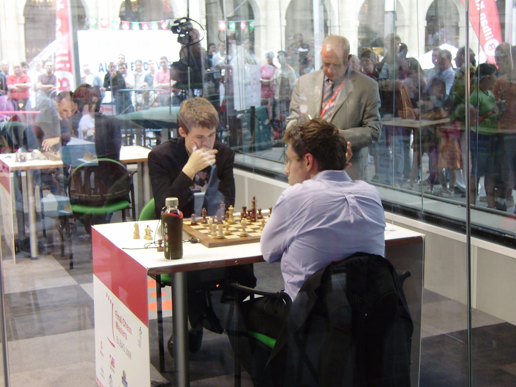 Magnus Carlsen and Levon Aronian playing In Bilbao Grand Slam